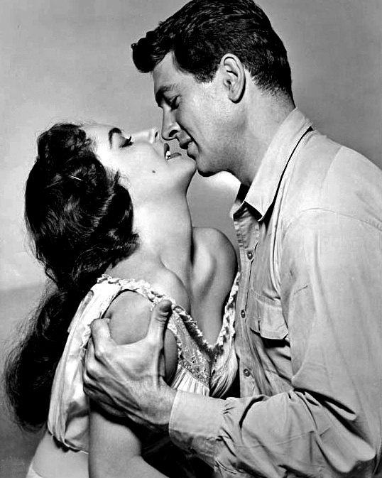 Publicity still of Elizabeth Taylor and Rock Hudson for film Giant.